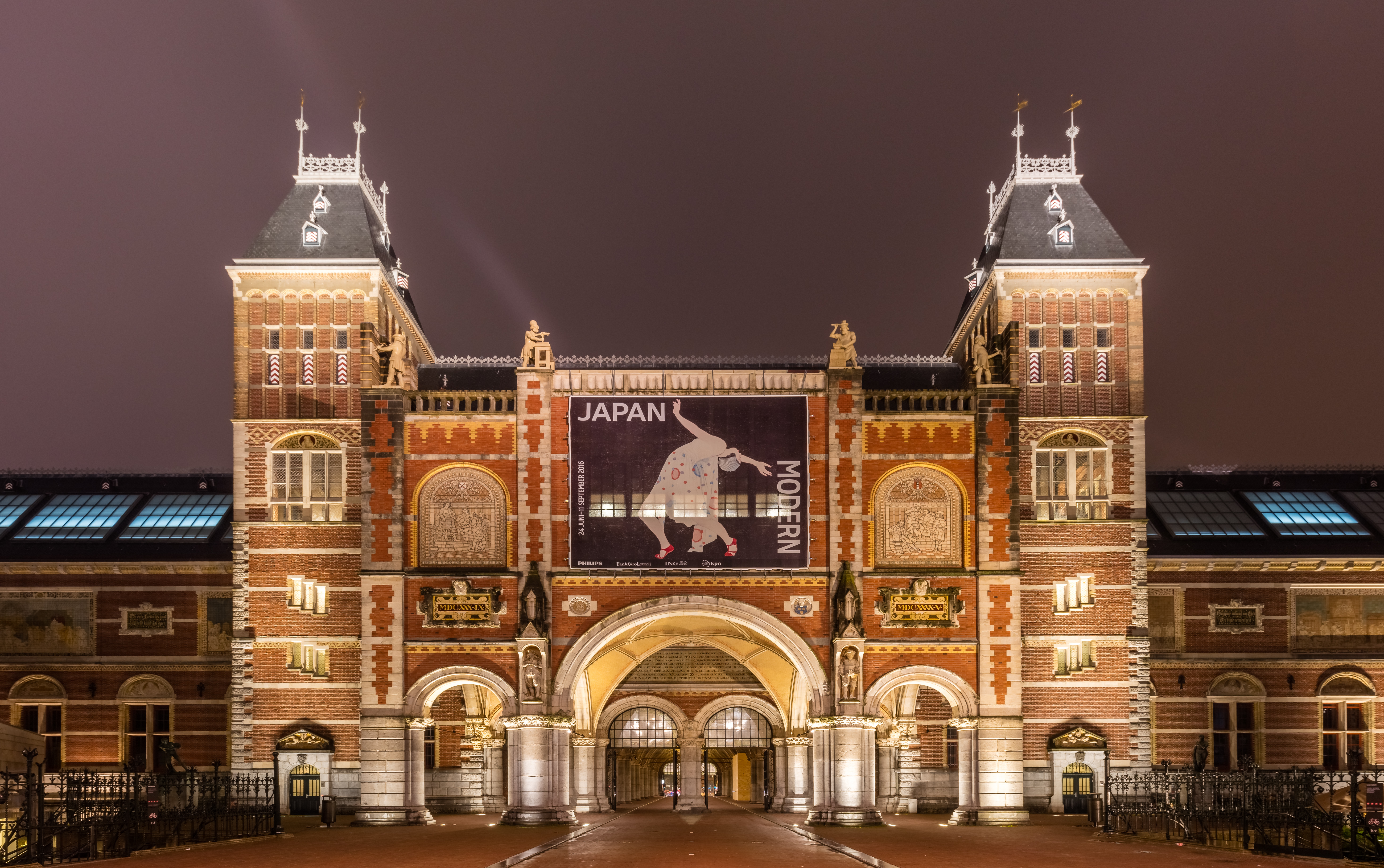 National Museum, Amsterdam, Netherlands